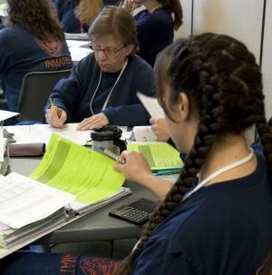 Inmates Lisa Bode (left) and Cynthia Thompson participate in the LIFE (Lifelong Information For Entrepreneurs) program at the Coffee Creek Correctional Facility in Oregon.